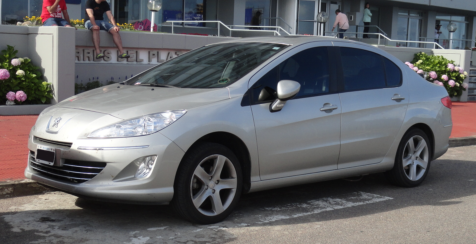 Peugeot 408 2011 photographed in Uruguay